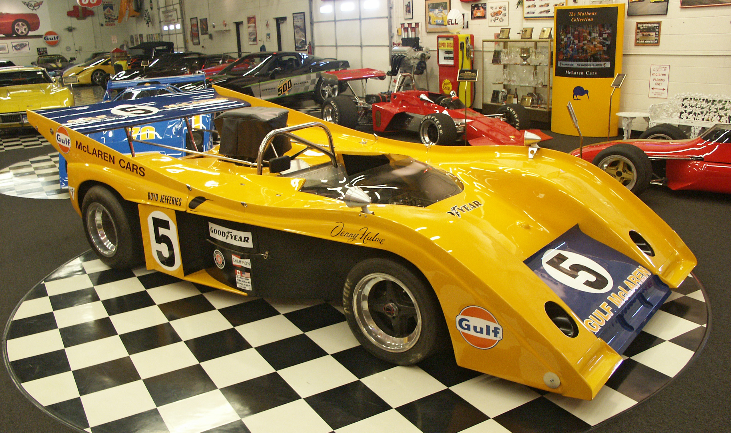 McLaren M20 Can-Am race car at Mathews Collection, Arvada, Colo., USA.